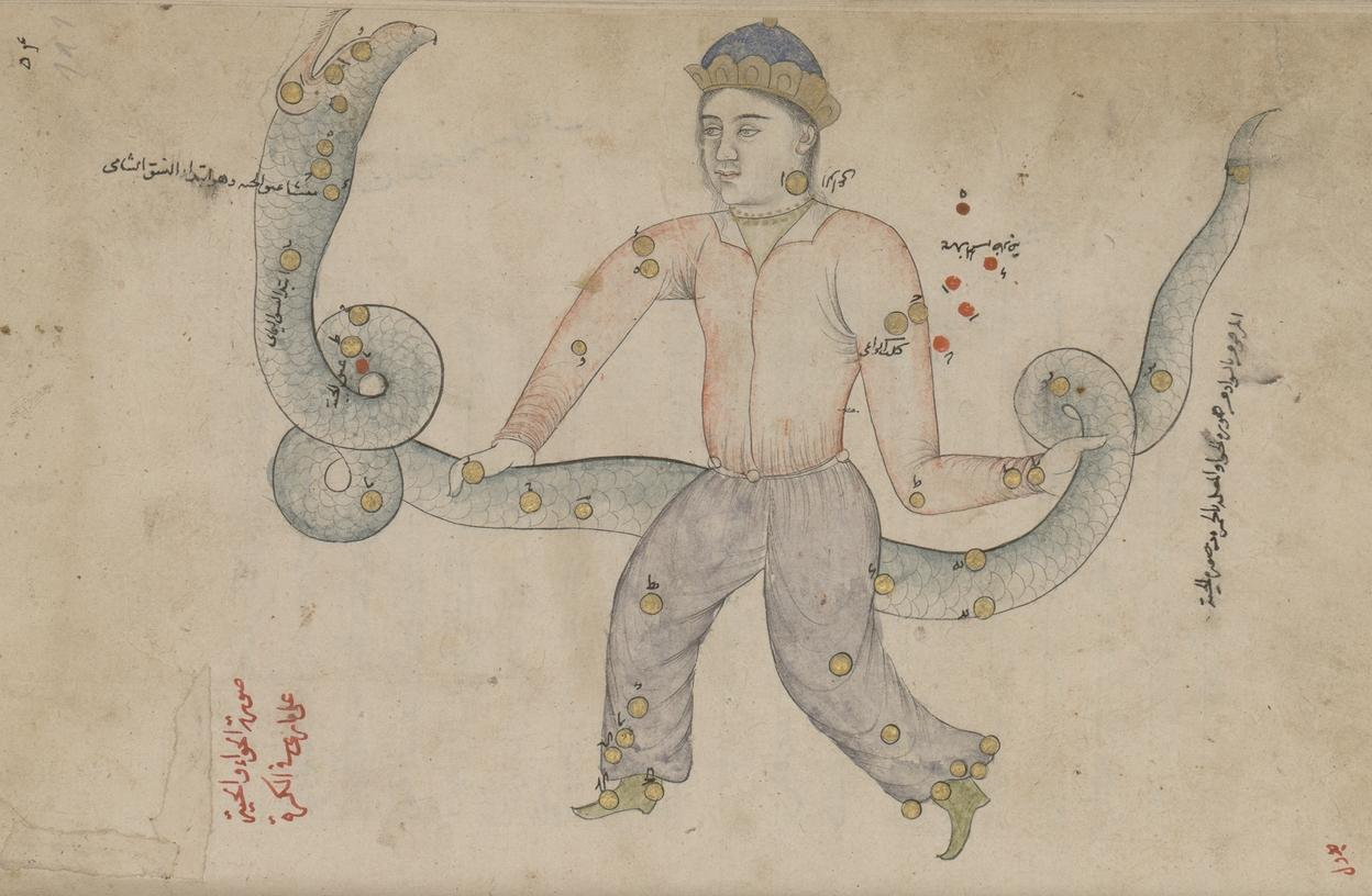 illustration of the Ophiuchus constellation in a 18th-century manuscript of Azophi's (al-Sufi's) Suwar al-Kawakib. This manuscript is from the Library of Congress collection, produced ca. 1730. It is an exact copy of the lost manuscript prepared for Ulug Beg of Samarkand in 1417.[1]